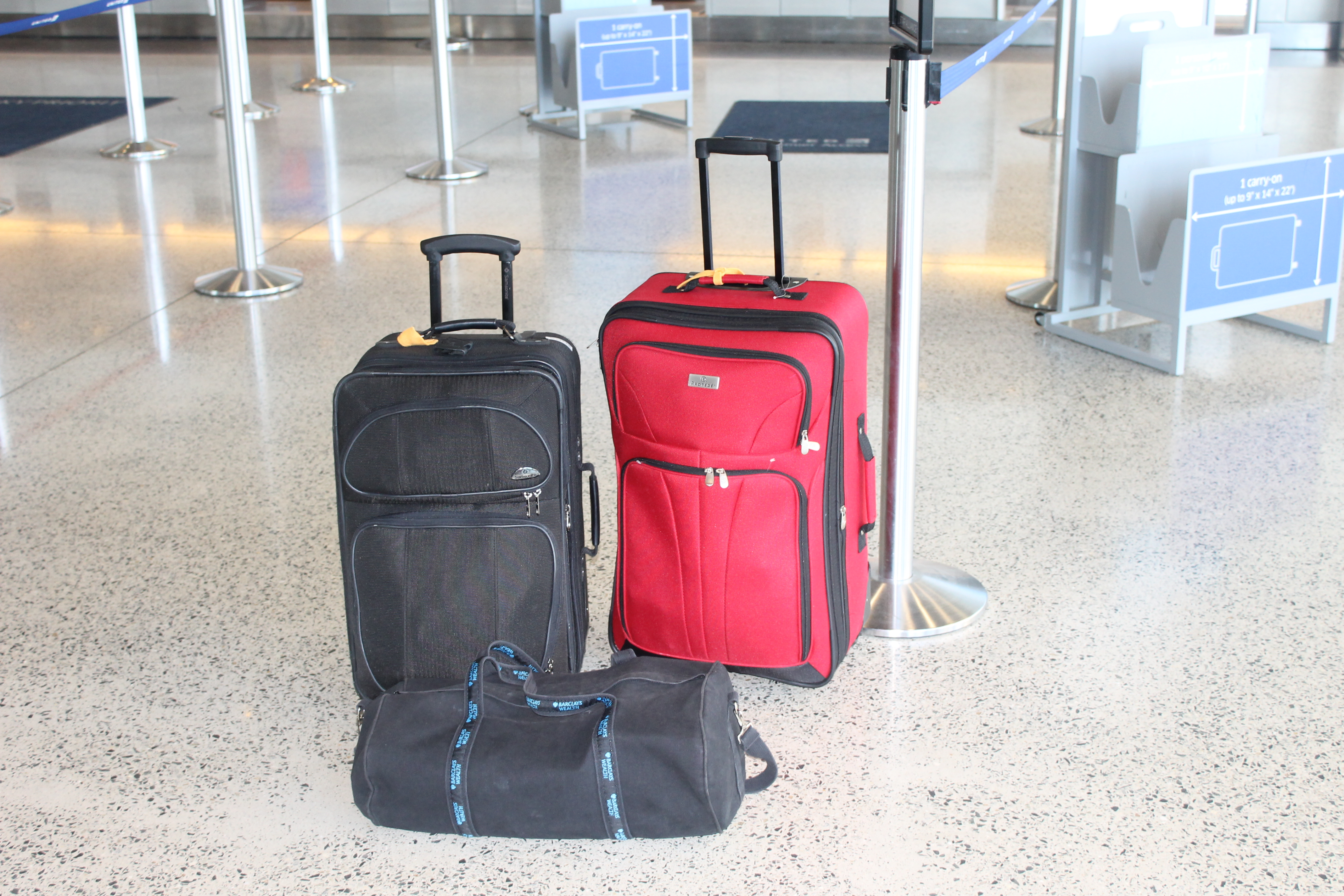 I took photo of luggage awaiting loading at airport.